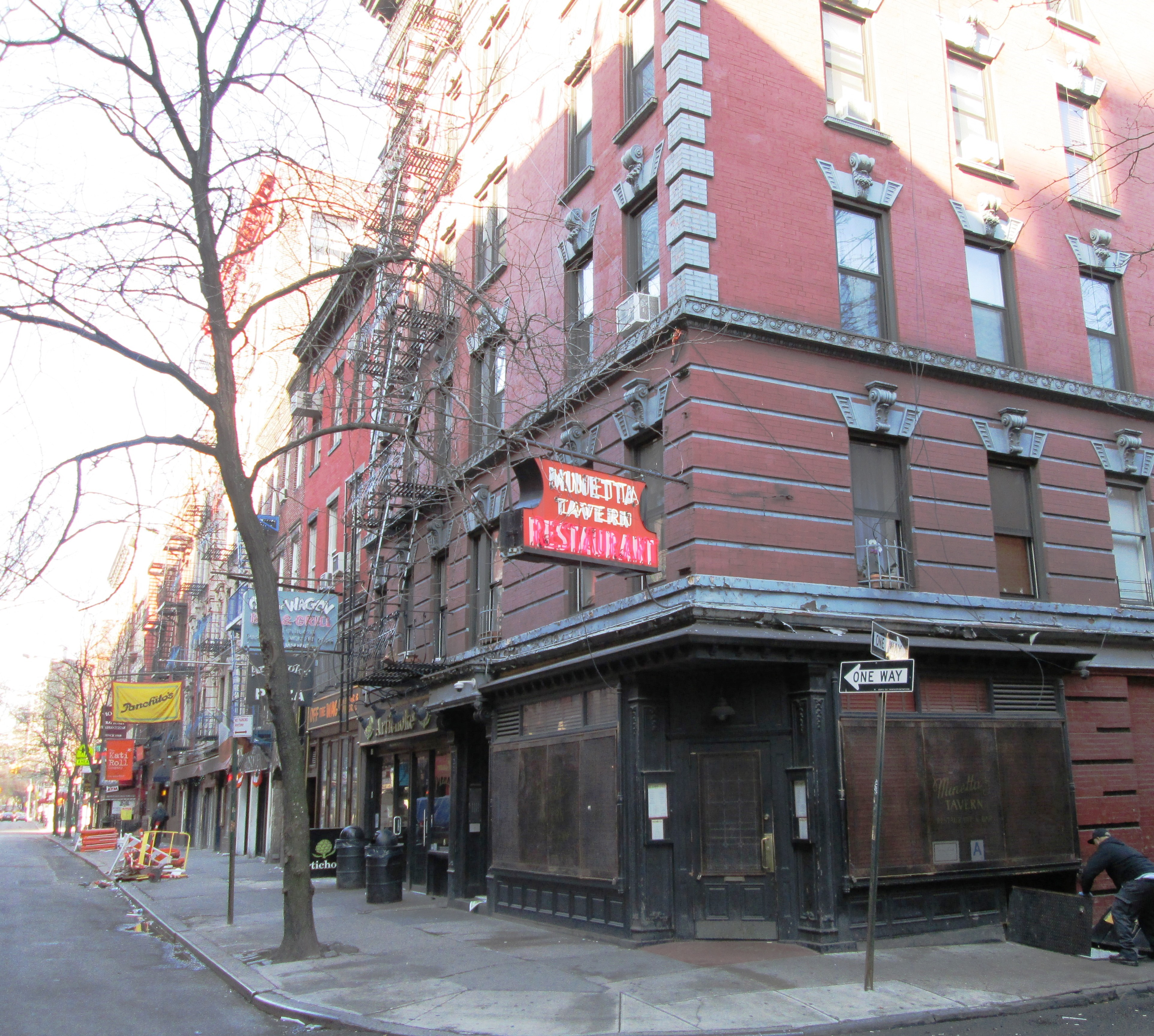 The southwest corner of MacDougal Street (on the left) and Minetta Lane (in the foreground) in the South Village neighborhood of Greenwich Village, Manhattan, New York City. The building on the corner is 111 MacDougal Street, which was built c.1905. The buildings in the image are located in the South Village Historic District. (Source: NYC GIS map